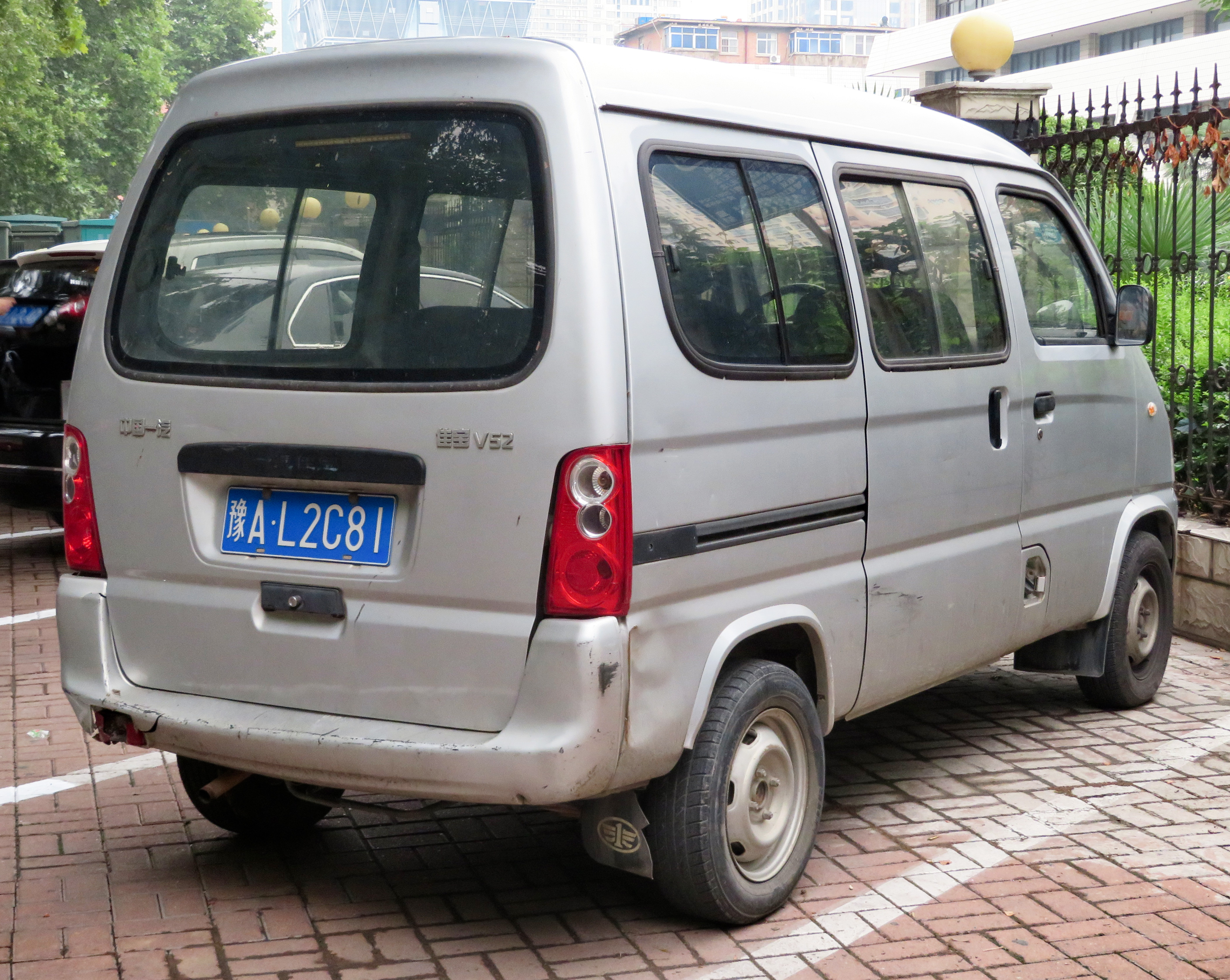 A 2013 FAW-Jilin Jiabao V52 photographed in Xigong District, Luoyang, Henan province, China